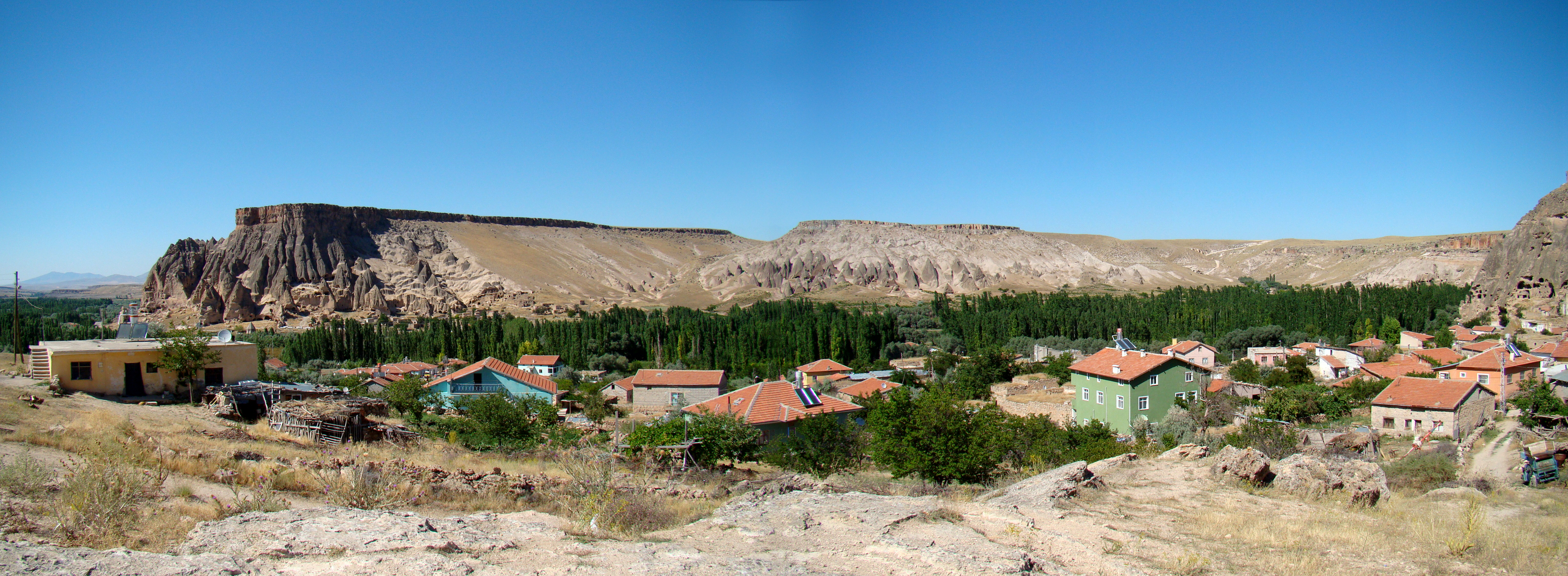 The Ihlara Valley (more like a canyon) opens up to a more open landscape as it comes from the east (right side of this photo) and meets the town Yaprakhisar. This view is claimed by local tour operators to have been used in a Star Wars movie, but this is not true. What is true, though, is that in left back of the photo you see an area with many impressive caves carved out of the mountain by people through centuries. "Selime Kalesi" is the most remarkable of them, a monastery/church complex with two large courts.